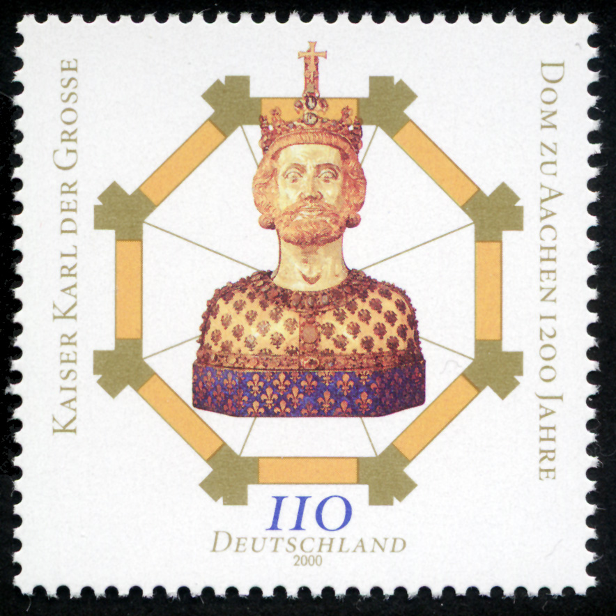 Stamp from Deutsche Post AG from 2000, 1200th anniversary of Aachen Cathedral